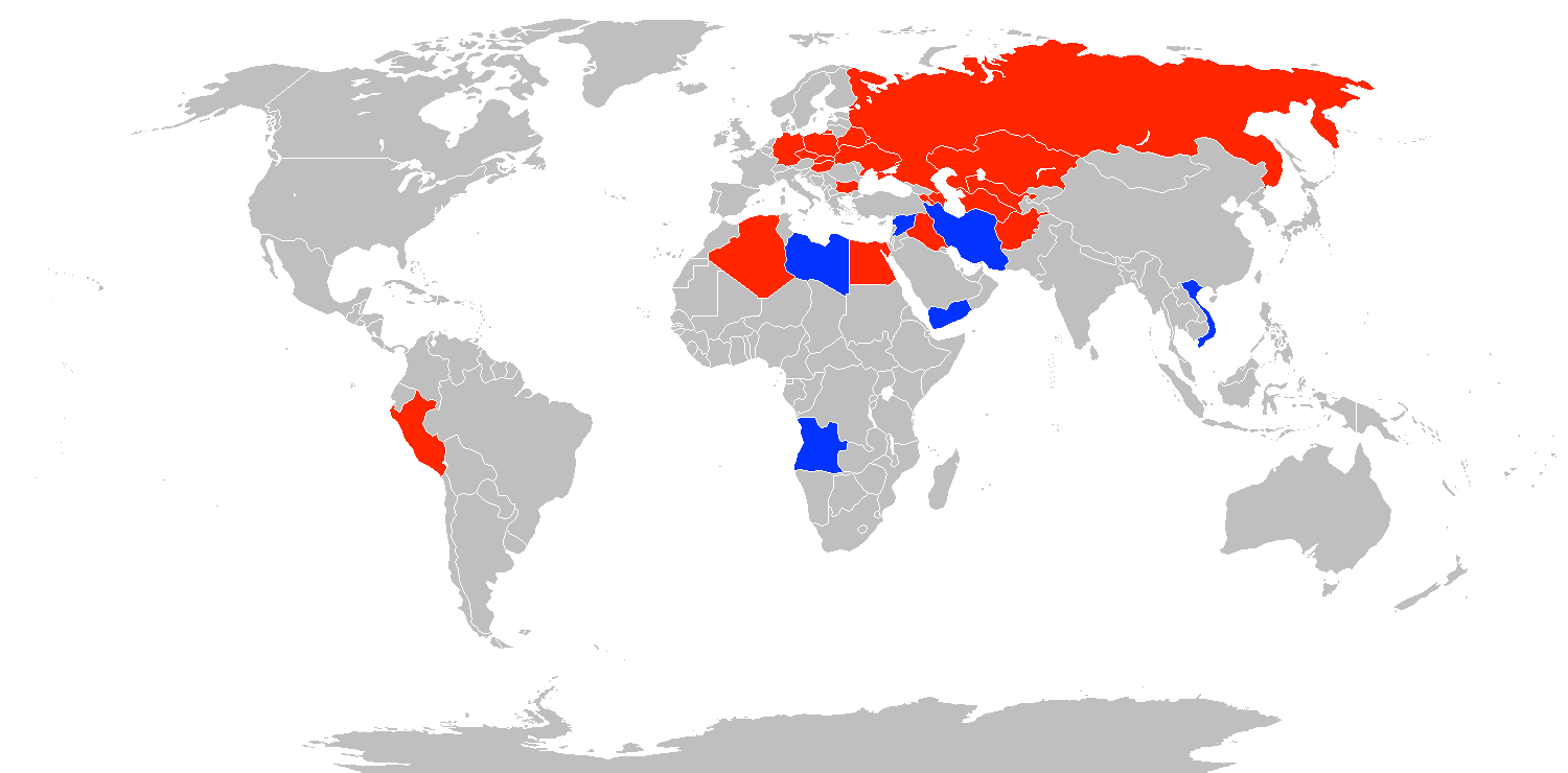 World map of Sukhoi Su-17 operators